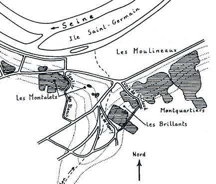 Map of Meudon caves : les Montalets , les Brillants ...